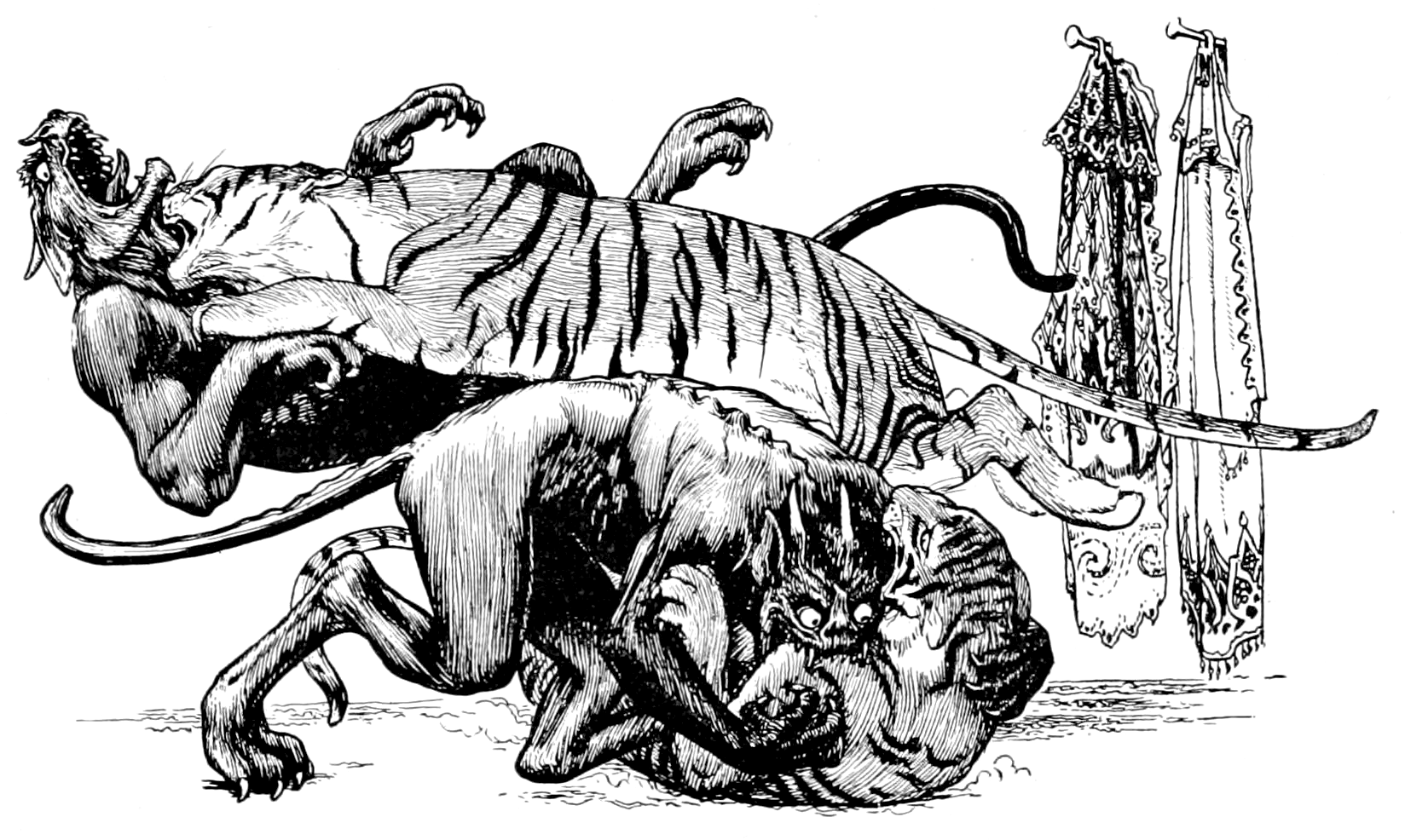 Inset illustration of book of english adaptations of the fairy tales of India.